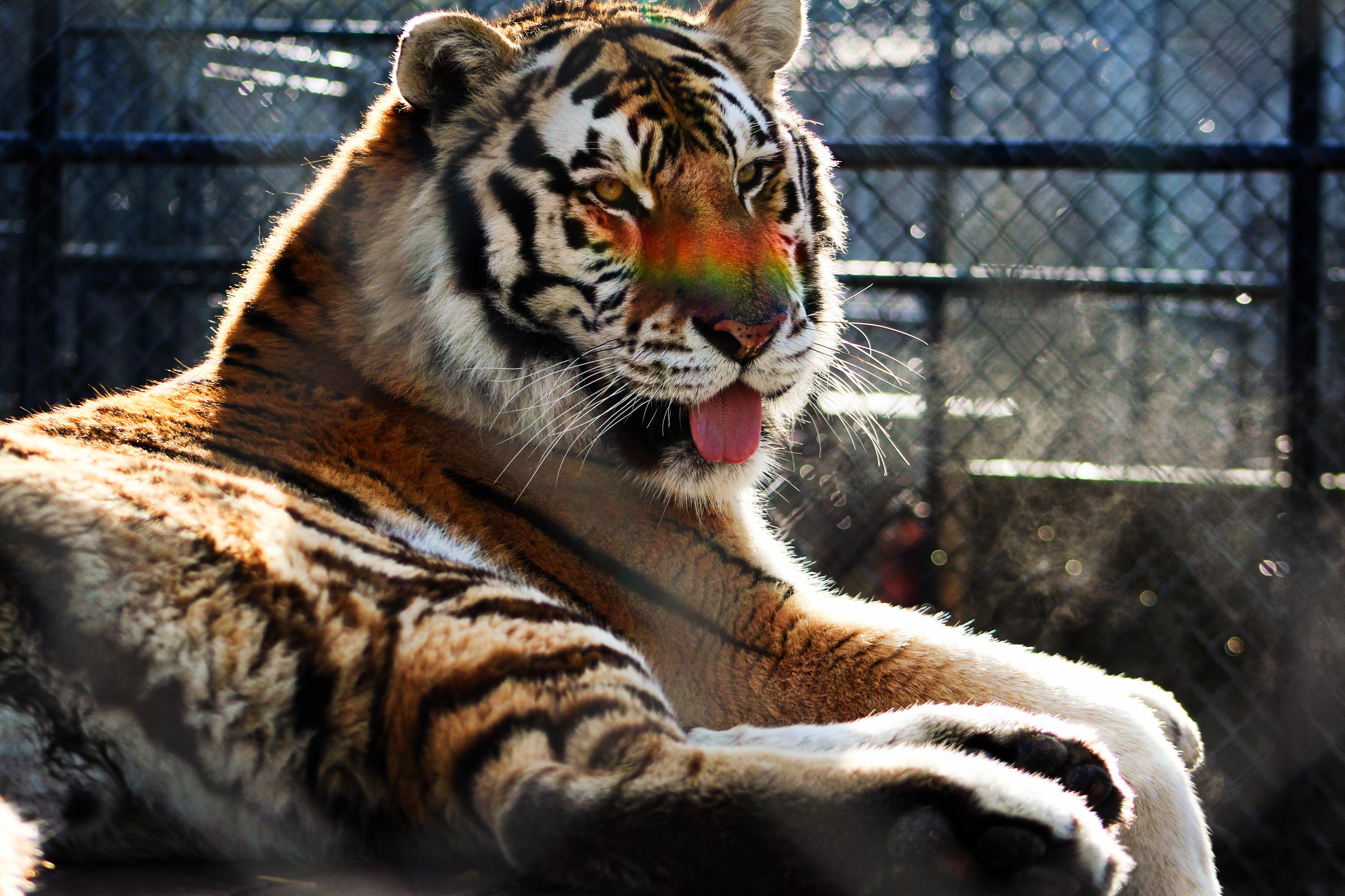 Tuga the Siberian Tiger lounges beneath a rainbow.